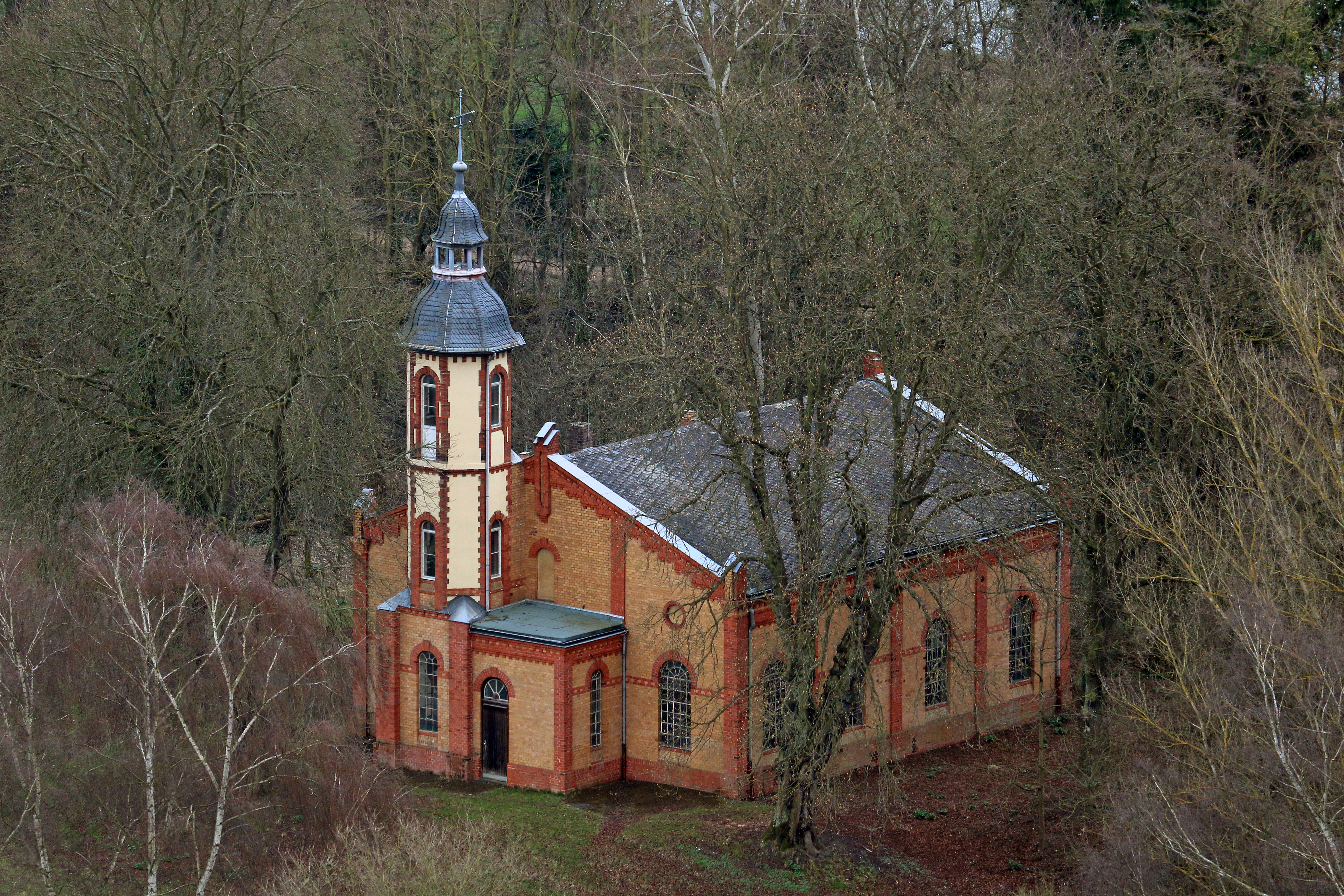 Old water work in Koblenz